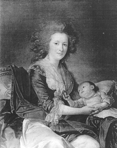 The Countess de Flahault (1761-1836), afterwards Madame de Souza, with her son Charles